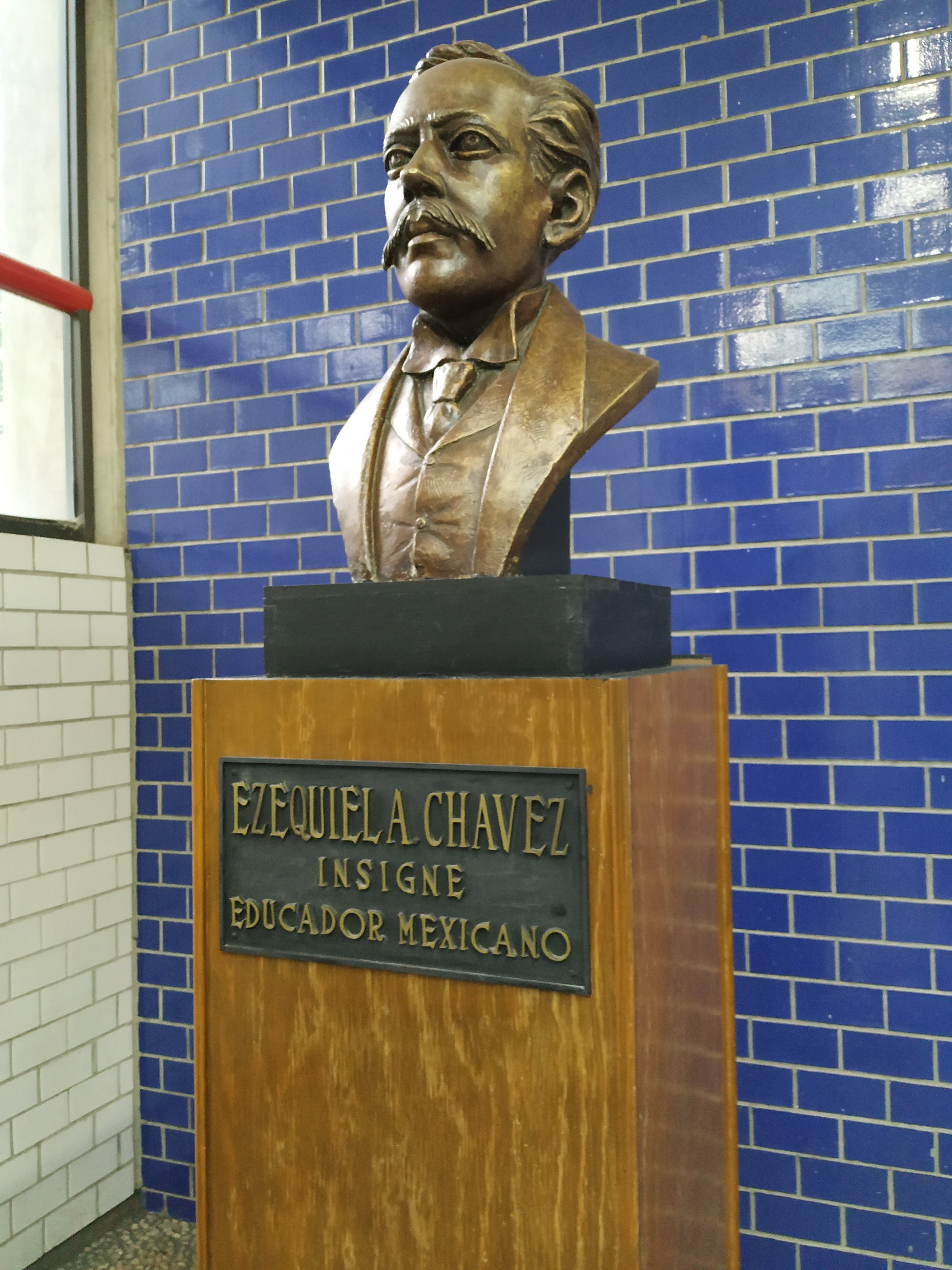 Statue of the portrait of Ezequiel Adeodato Chávez Lavista located in the National Preparatory School Number 7 of the UNAM.